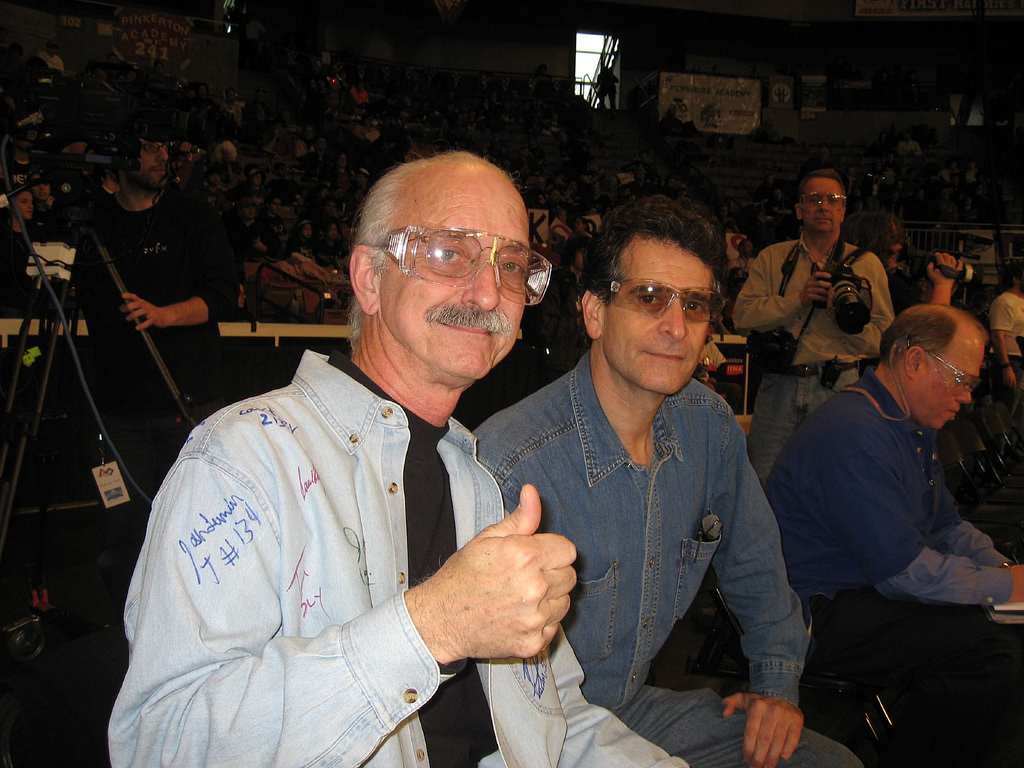 Woodie Flowers and Dean Kamen at the 2007 Manchester Regional event of the FIRST Robotics Competition.